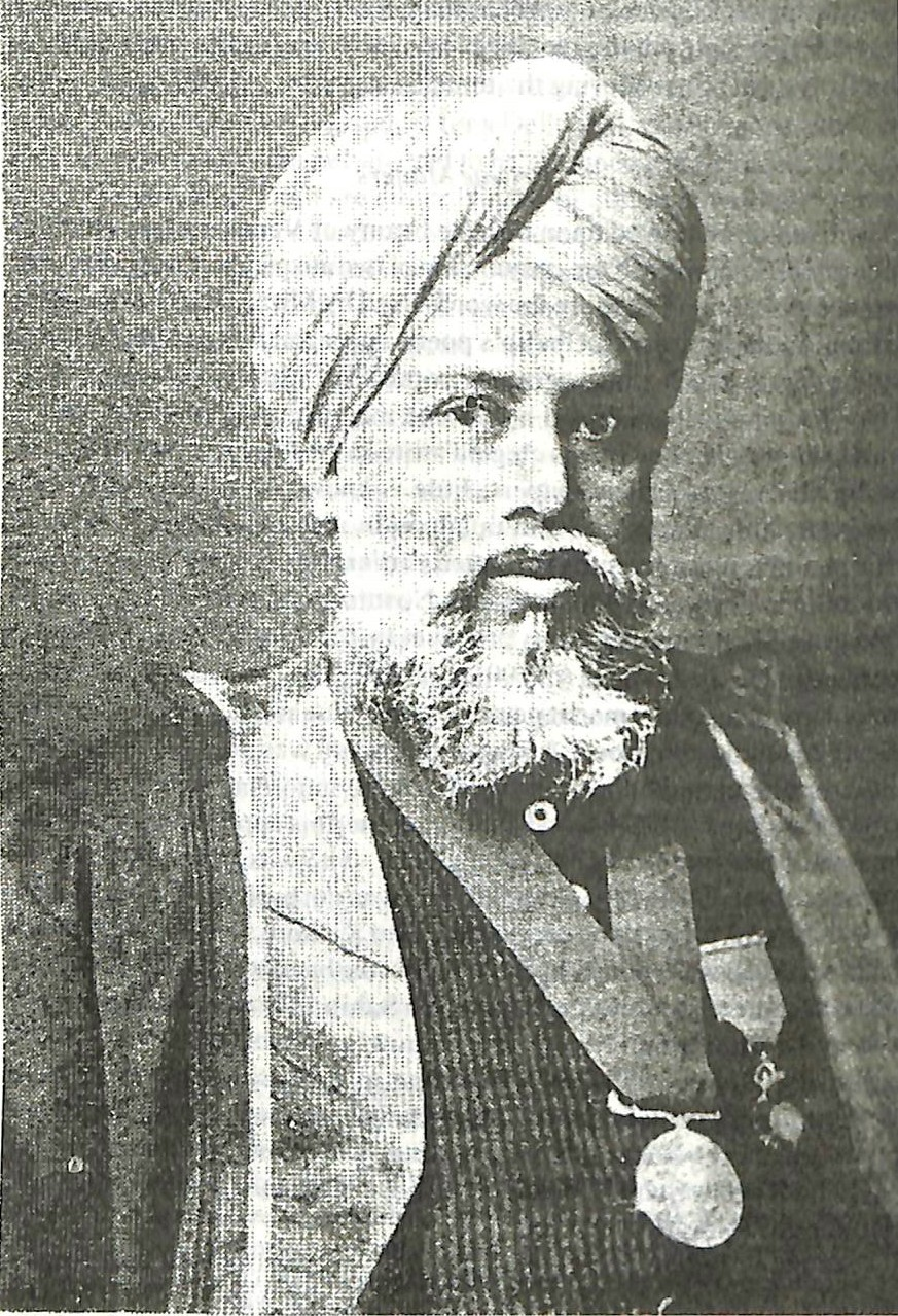 Munshi Nawal Kishore (1836–1895), a book publisher and magazine editor from British India